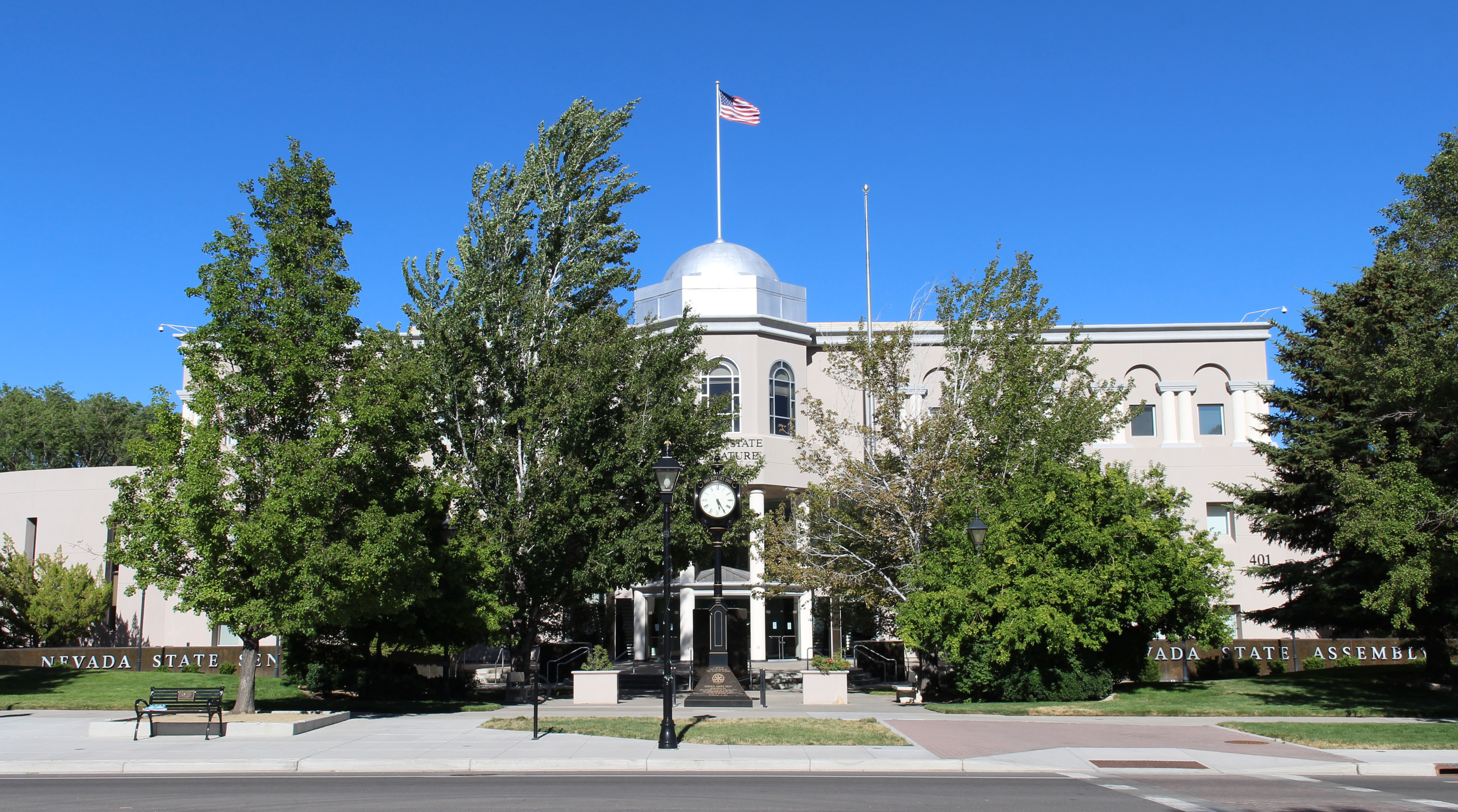 The Nevada Legislative Building in Carson City, Nevada. This is the home of both houses of the Nevada Legislature. Photographed by user Coolcaesar on July 4, 2020.